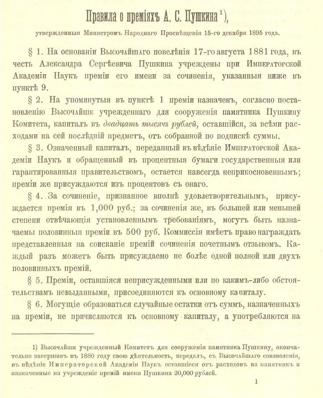 Rules of the Pushkin Prize, 1895, 1st page